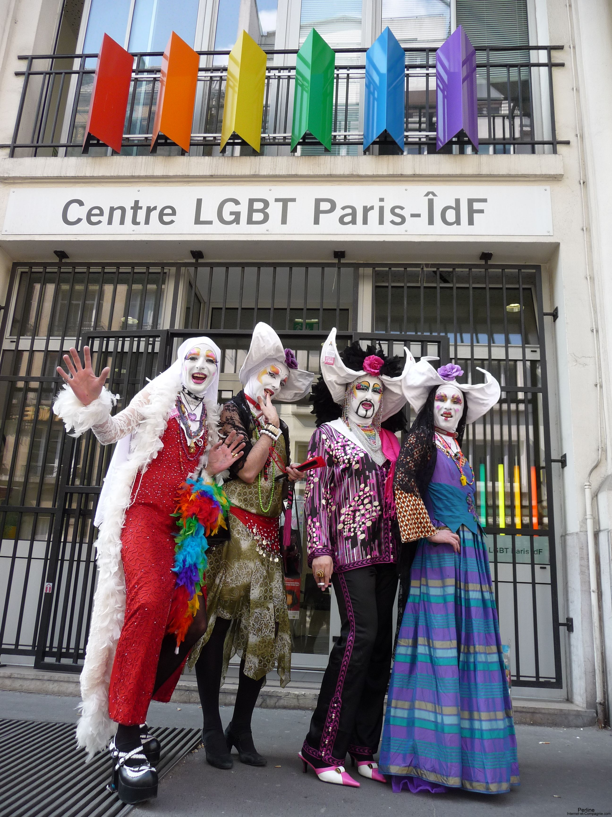 Sisters of Perpetual Indulgence (France, Paris).